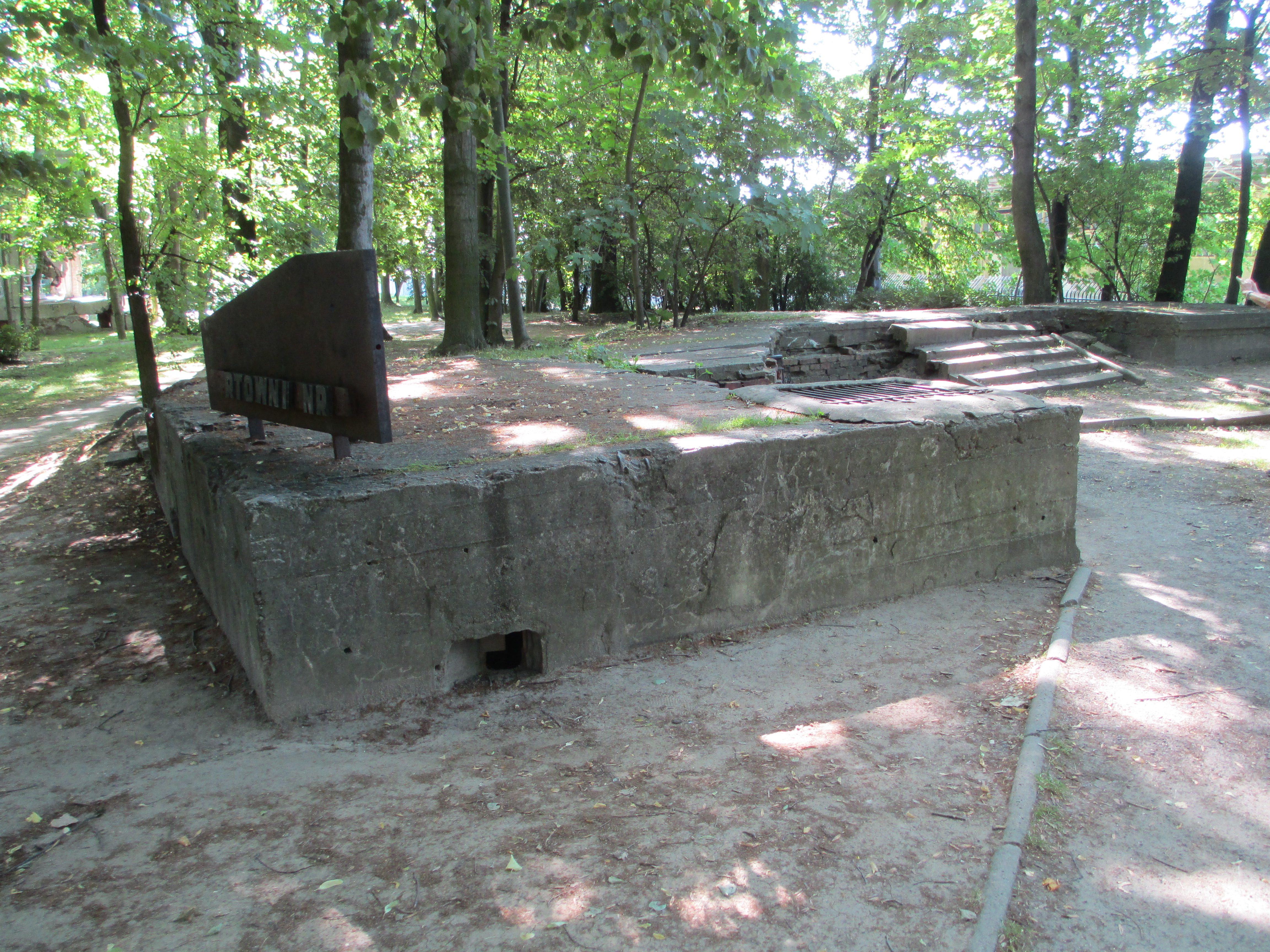 bunker in westerplatte